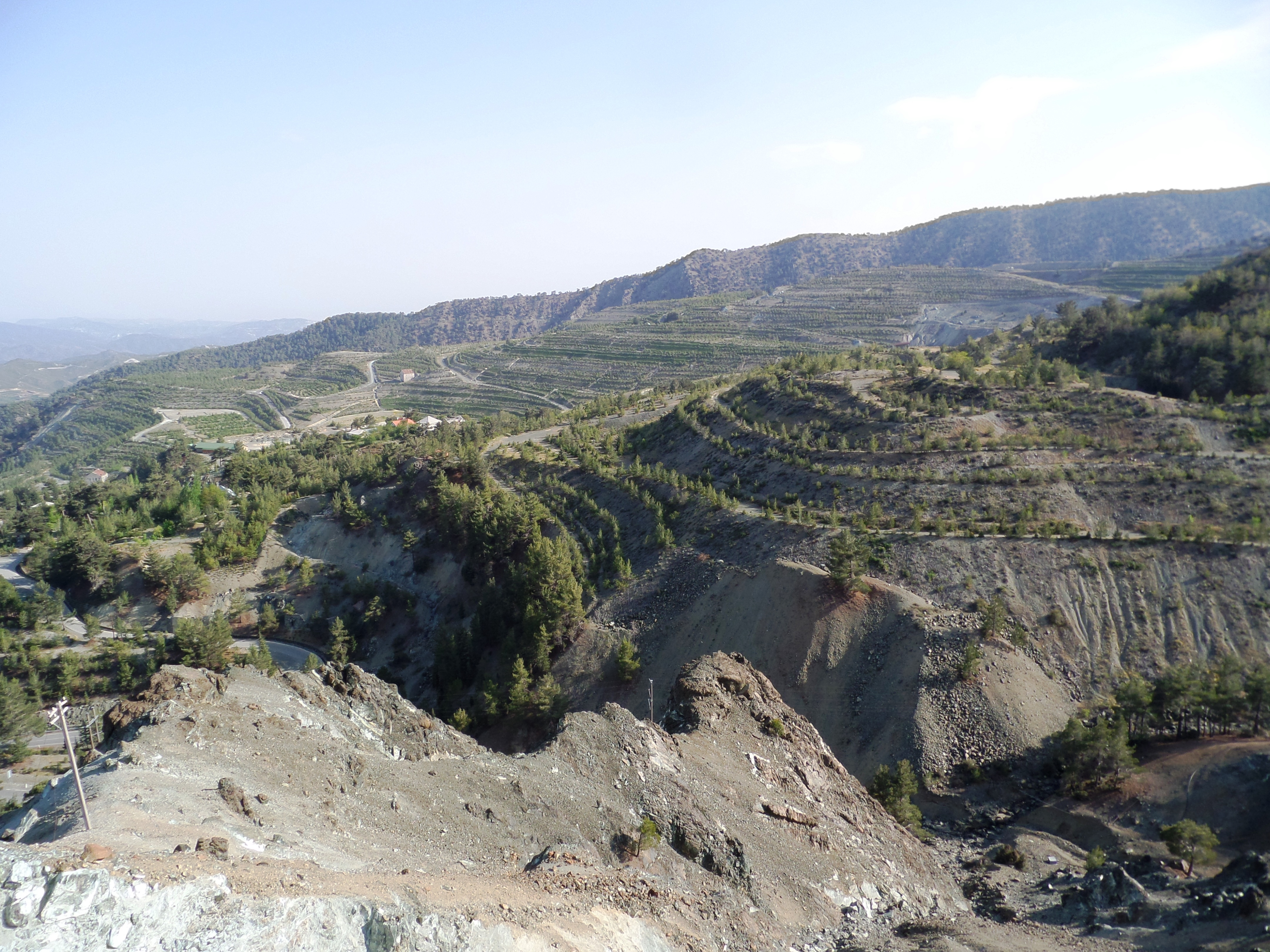 Amiandos Asbestos Mine area.